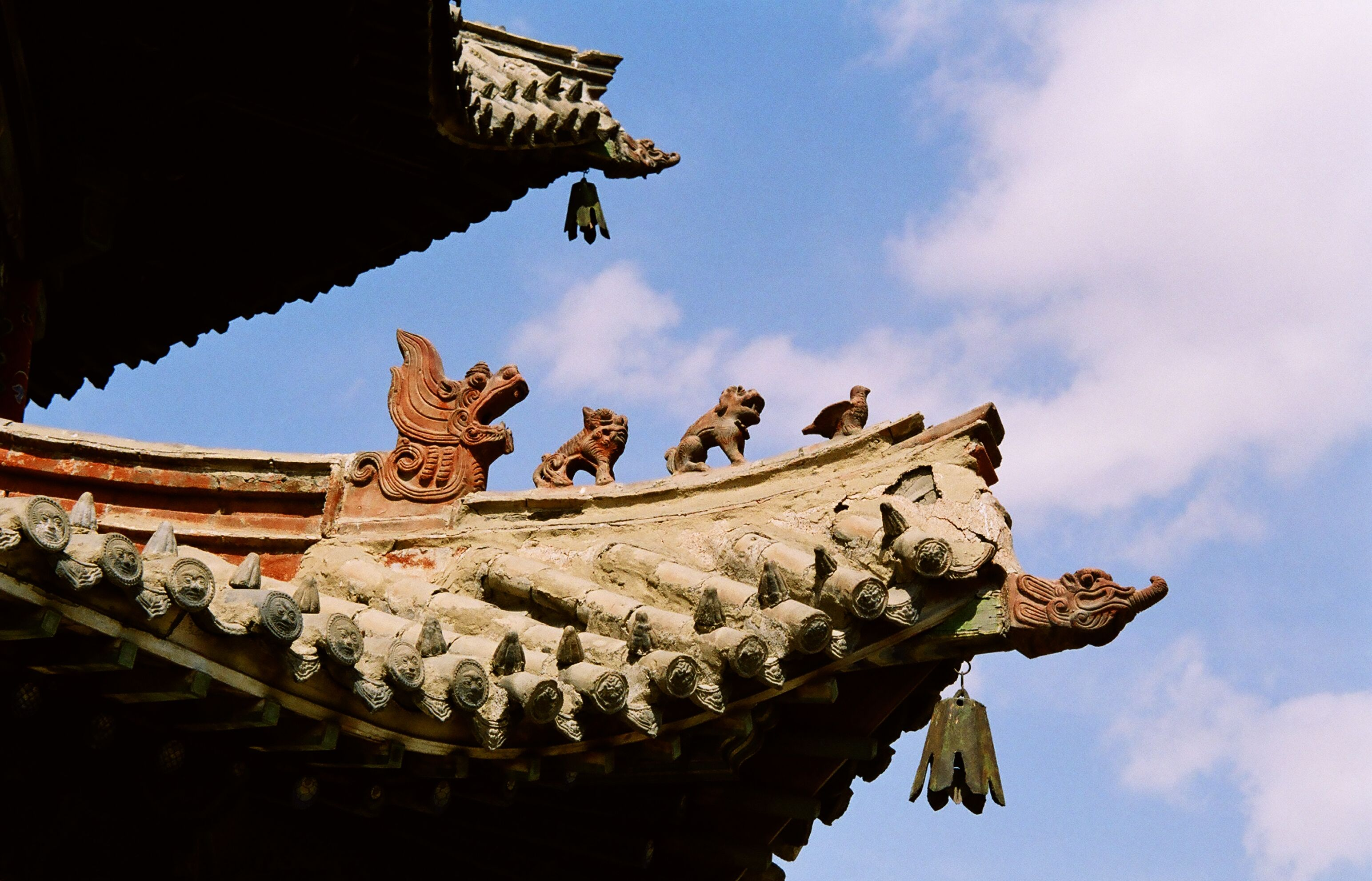 Choijin Lama Monastery, Ulan Bator, Mongolia